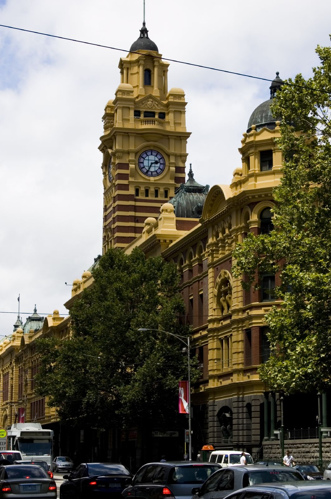 Flinders Street Station, Melbourne, Australia